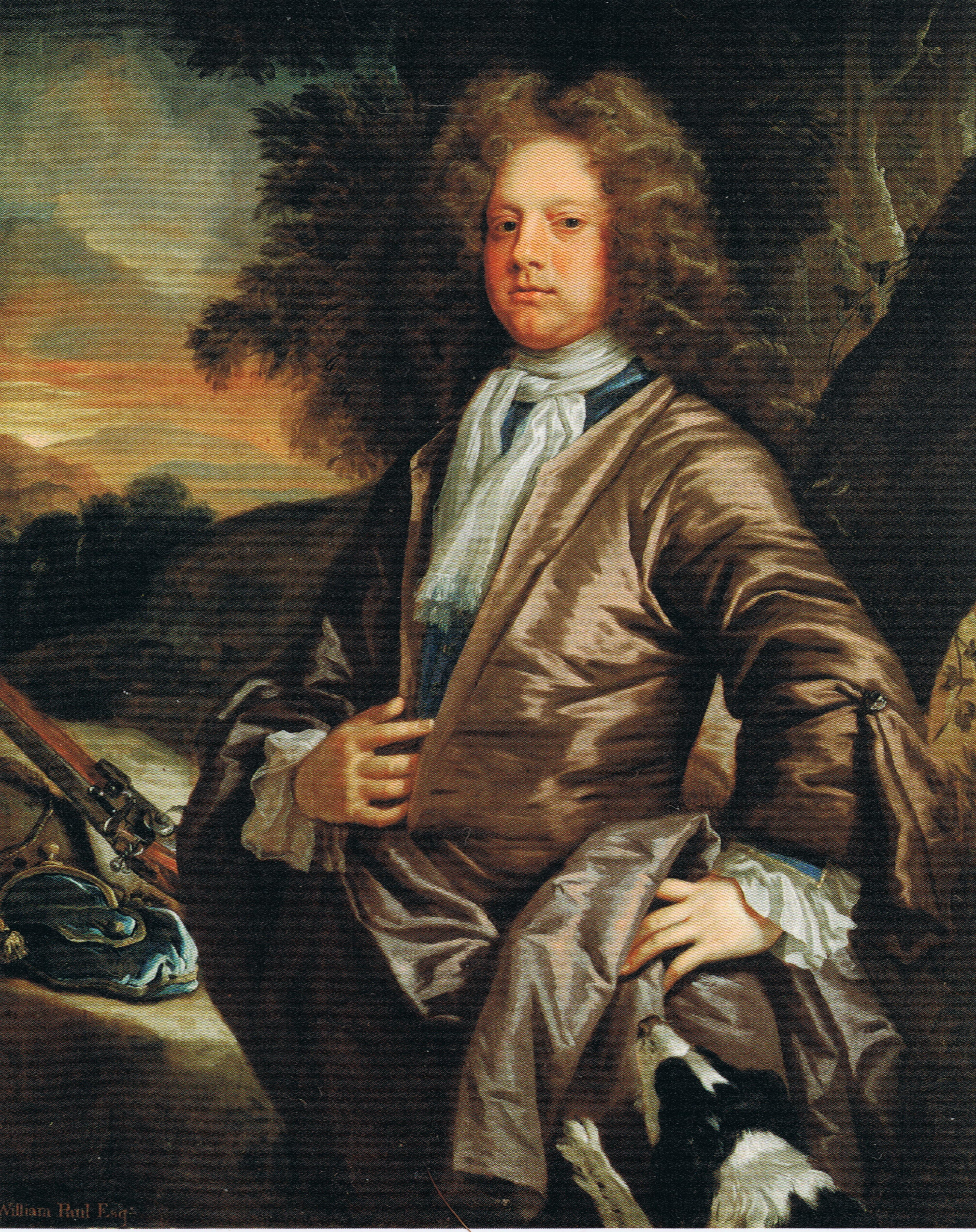 William Paul, esquire, of Bray (1673-1711), by John Closterman (1660-1711), 50 x 40 inches. Sotheby's, New York, 27 January 2007, lot 590; Sotheby's, New York, 27 October 2011, lot 130; Christies, South Knesington, 29 October 2015, lot 33.